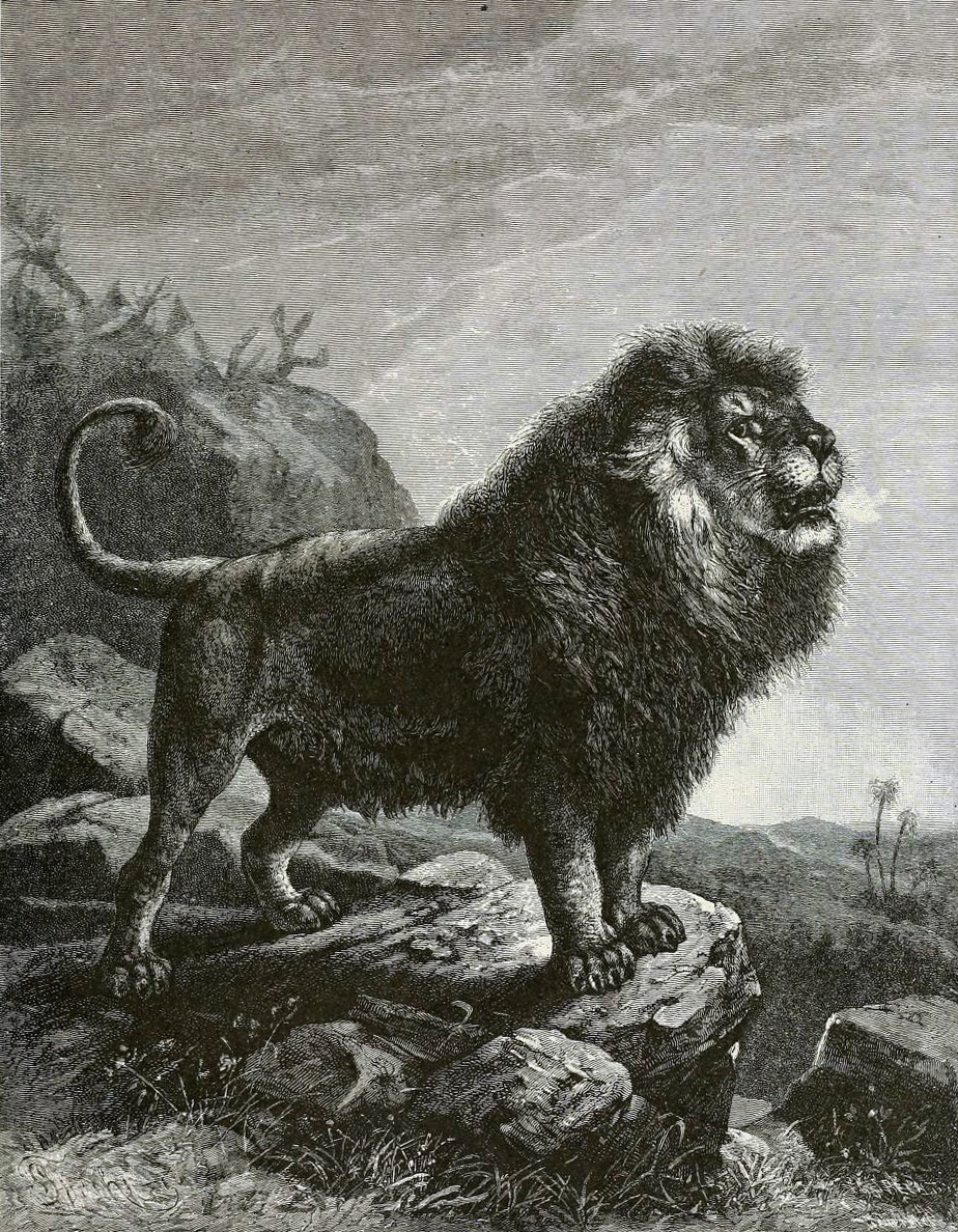 Barbary lion (Panthera leo leo) in a 1898 picture.